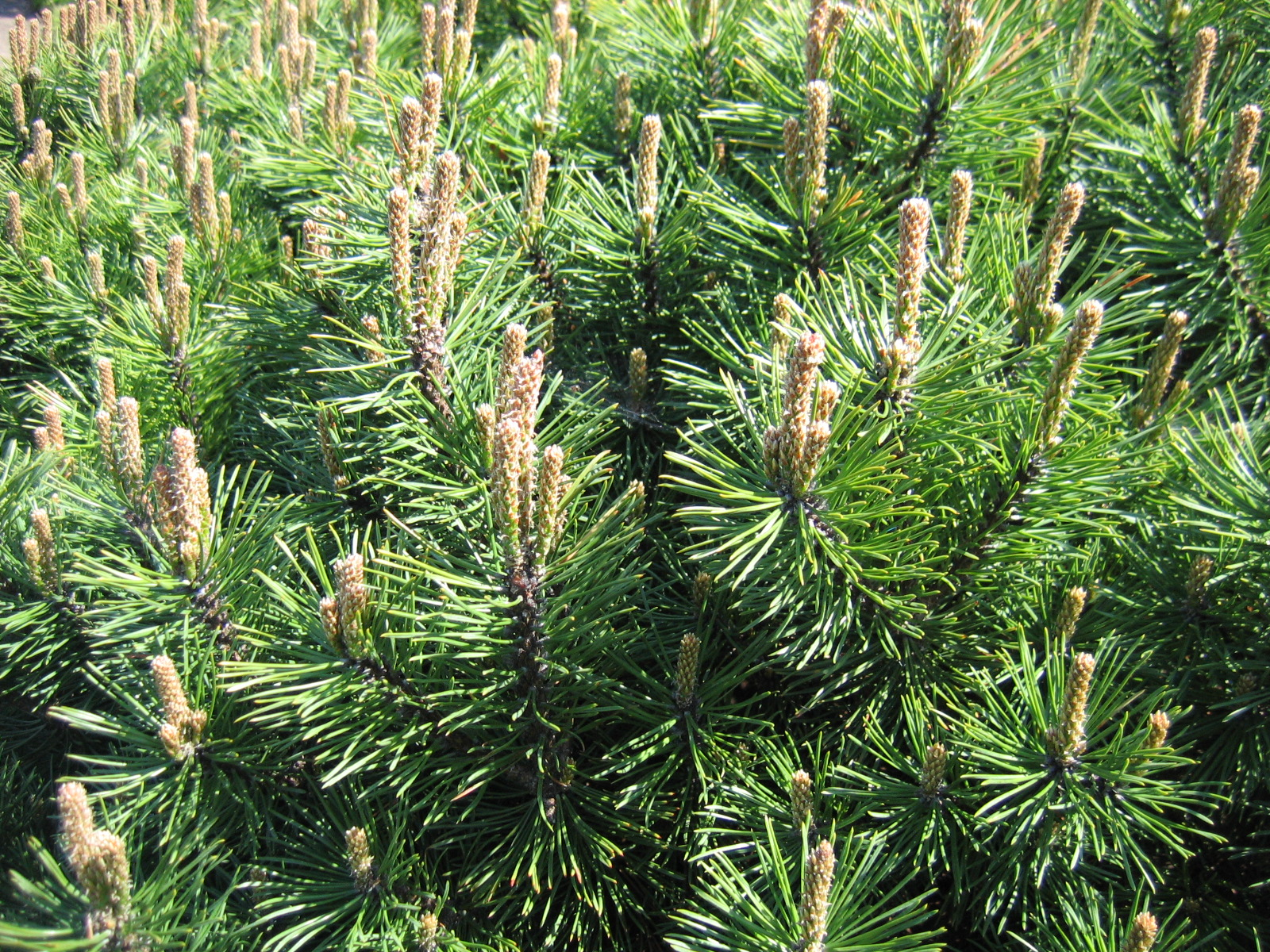 Mountain Pine cultivar 'Gnom' (Pinus mugo 'Gnom'), Wrocław University Botanical Garden, Wrocław, Poland.